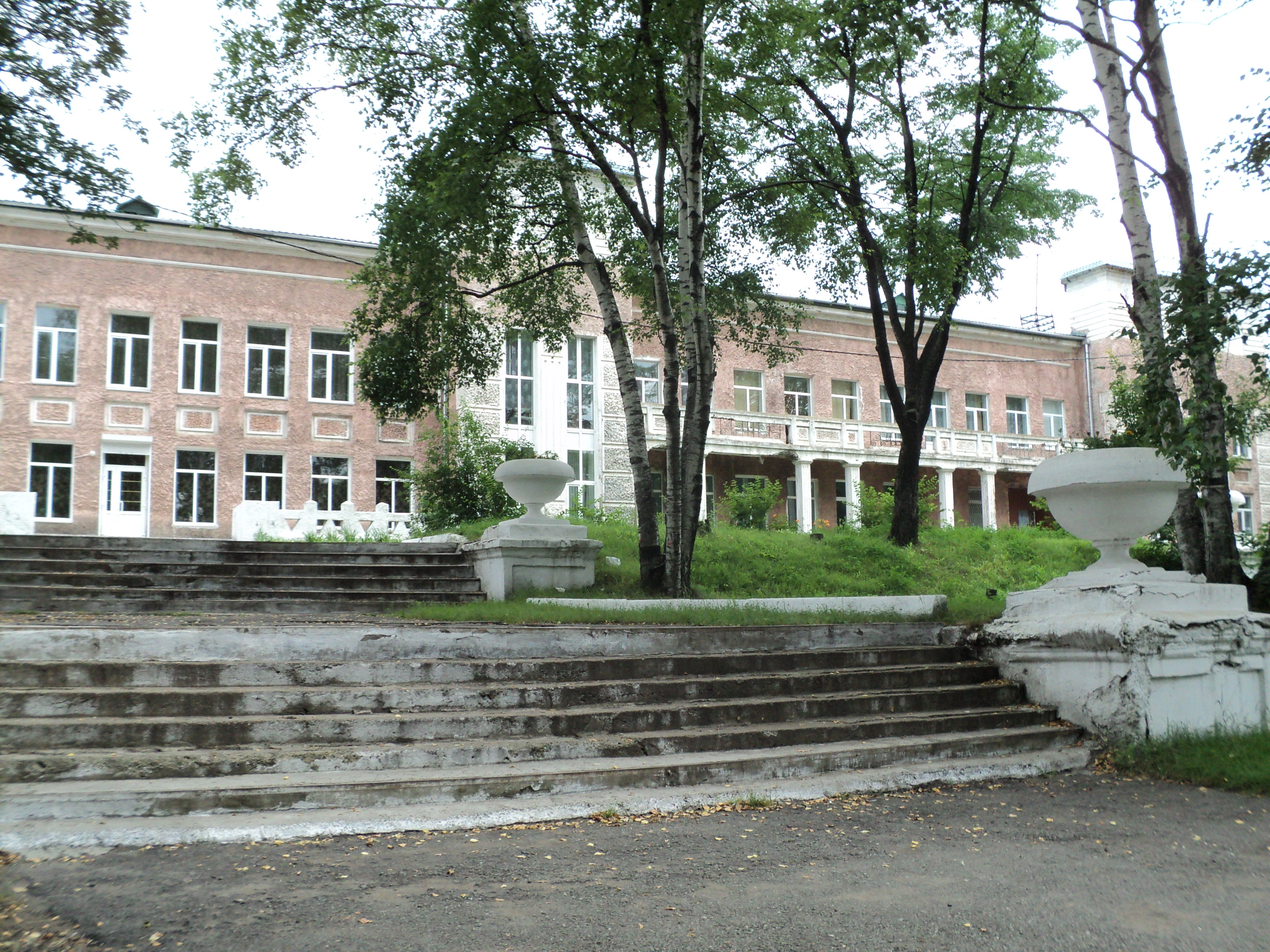 Palace of Culture in the town of Partizansk, Russia